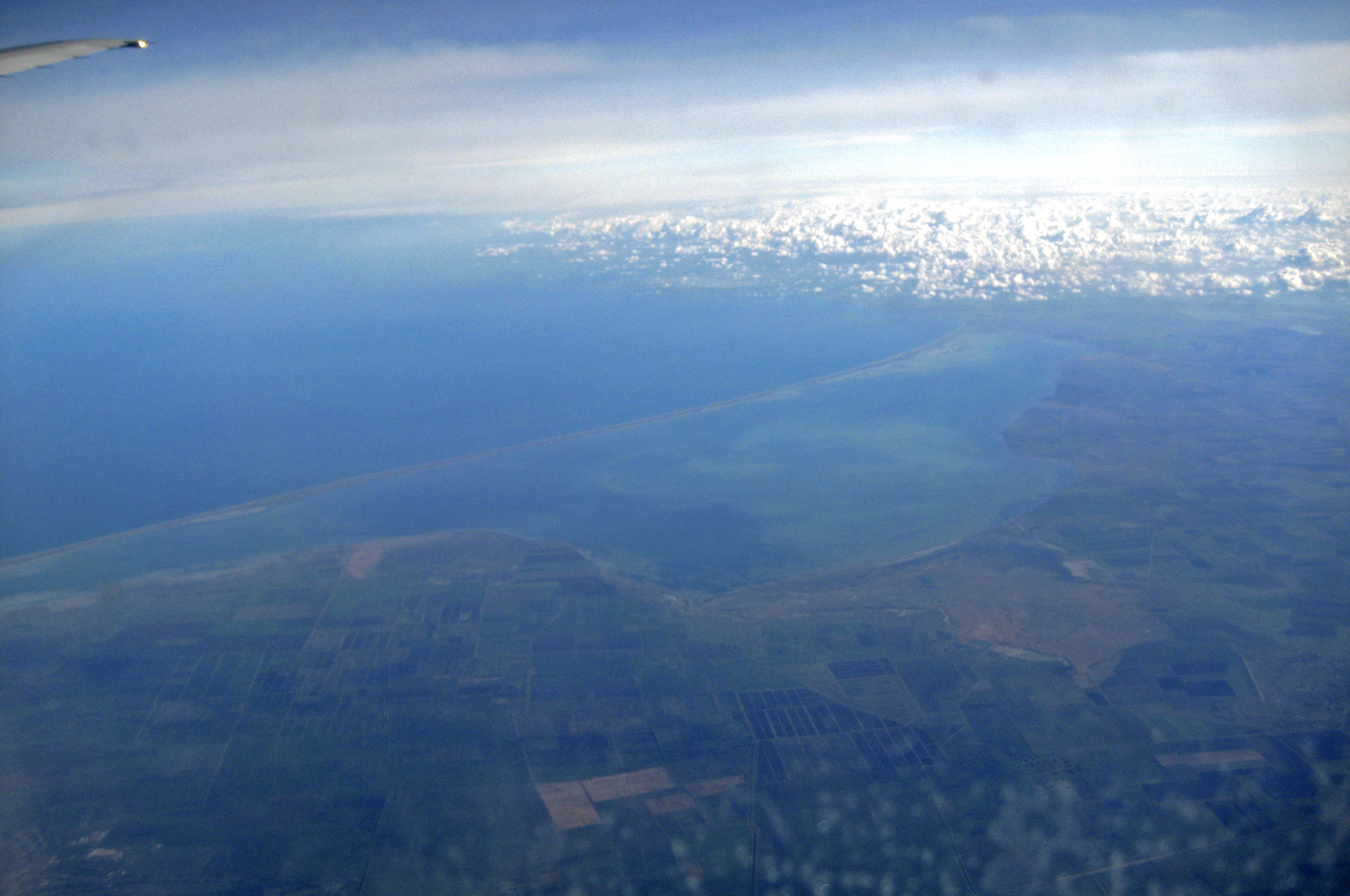 View from the Plane on Sivash lake and Arabatskaya strelka. Crimea